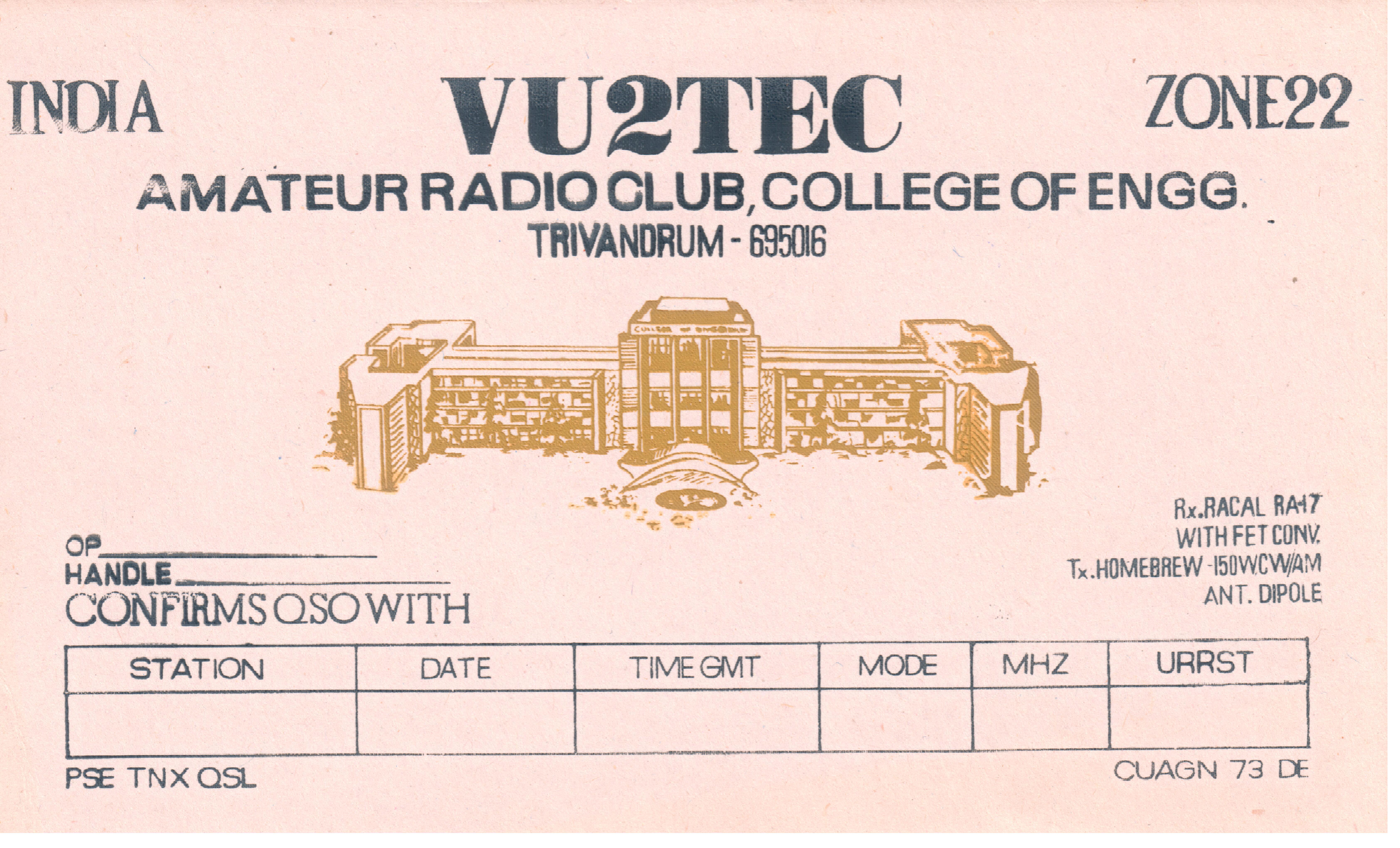 The QSL card used in College of Engineering Trivandrum, Kerala, India. VU2TEC, collected from its radio club and scanned by the author. The club is not active now.